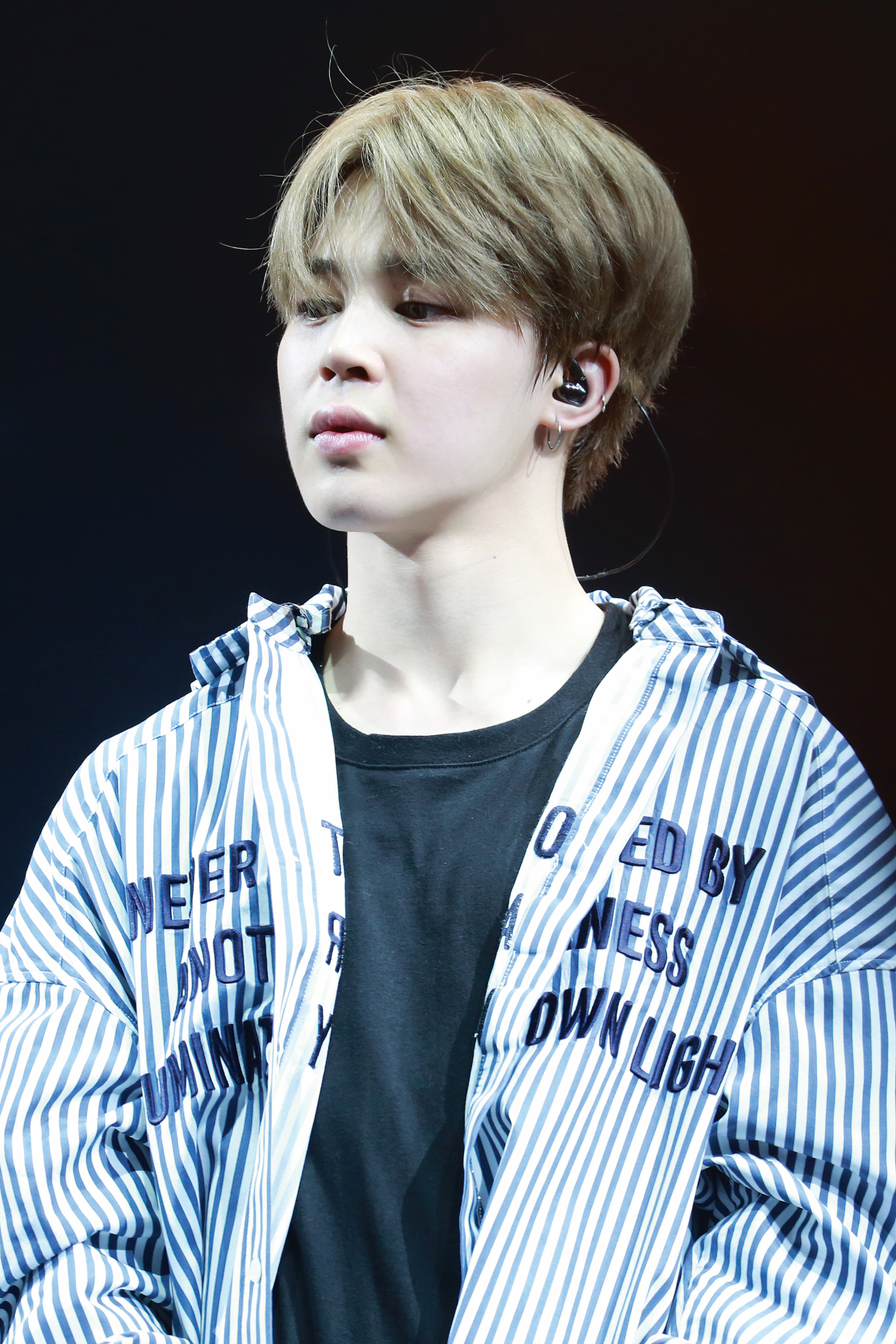 Park Ji-min during The Wings Tour in Anaheim, California on April 1, 2017.